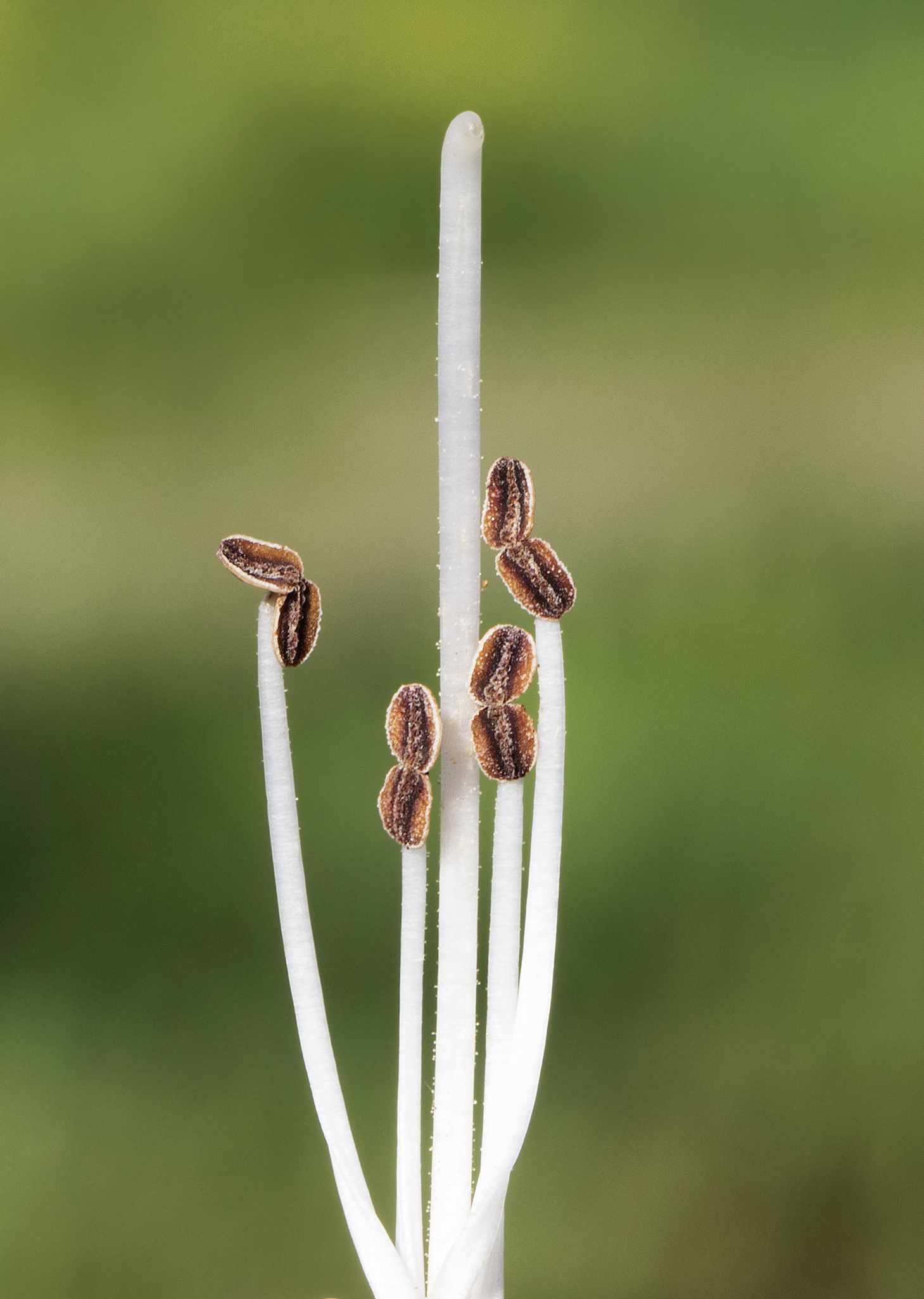 Stamens and pistil of a Paulownia sp. flower.